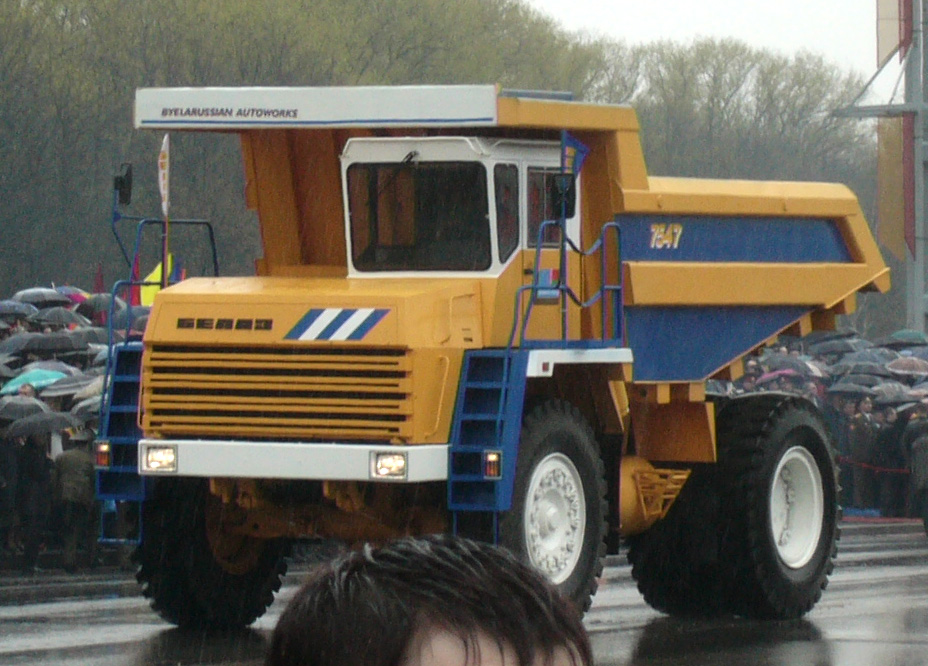 Belaz 7547 on Victory Day parade in Minsk